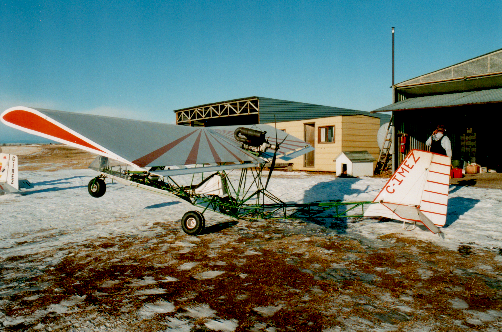 The prototype Blue Yonder EZ Flyer at Indus Alberta